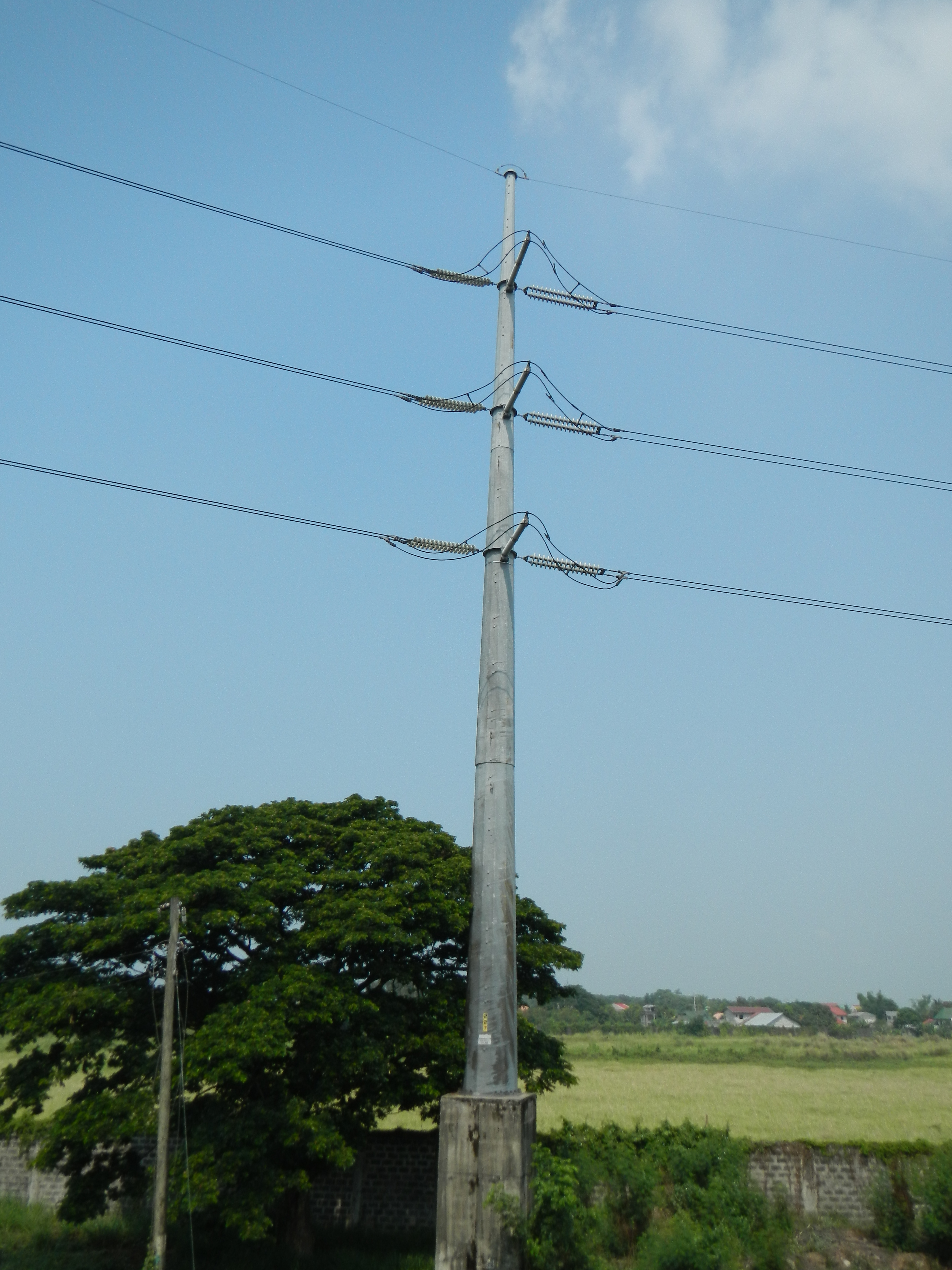 MacArthur Highway, Tulaoc, San Simon, Pampanga (Santa Monica): (where the strategic Crossing, Junction, Intersection is centered for all vehicles going to Apalit, Malolos, south then, to NLEX, and north, to San Simon to San Fernando, Pampanga; in the top of the North Luzon Expressway, San Simon Interchange, NLEX, buses to Cabiao, Arayat, are connected, decorated by yellow flower trees or Cassia fistula, known as the golden shower tree and by other names).